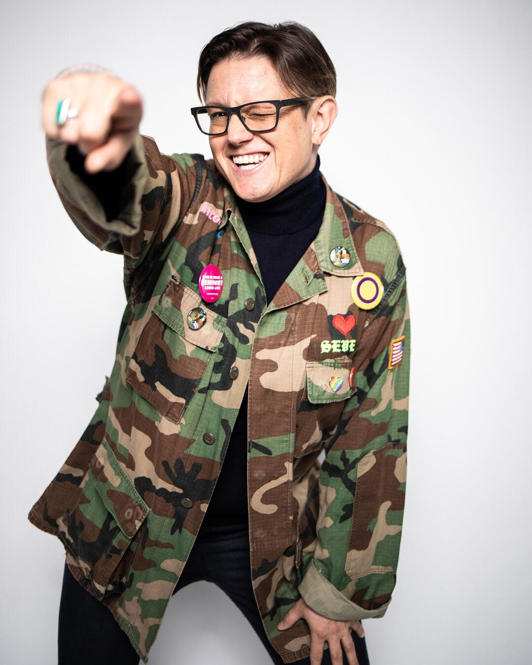 Portrait of Seven Graham